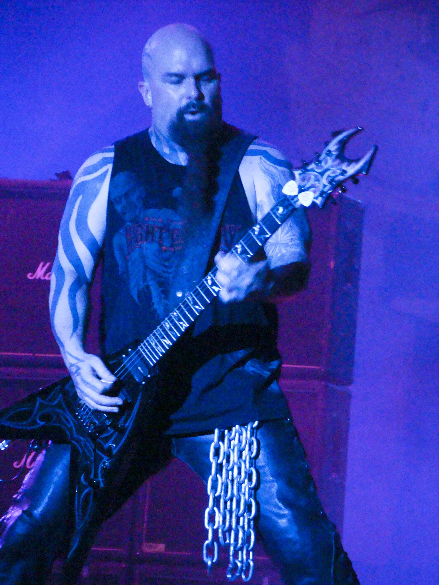 Slayer - Kerry King